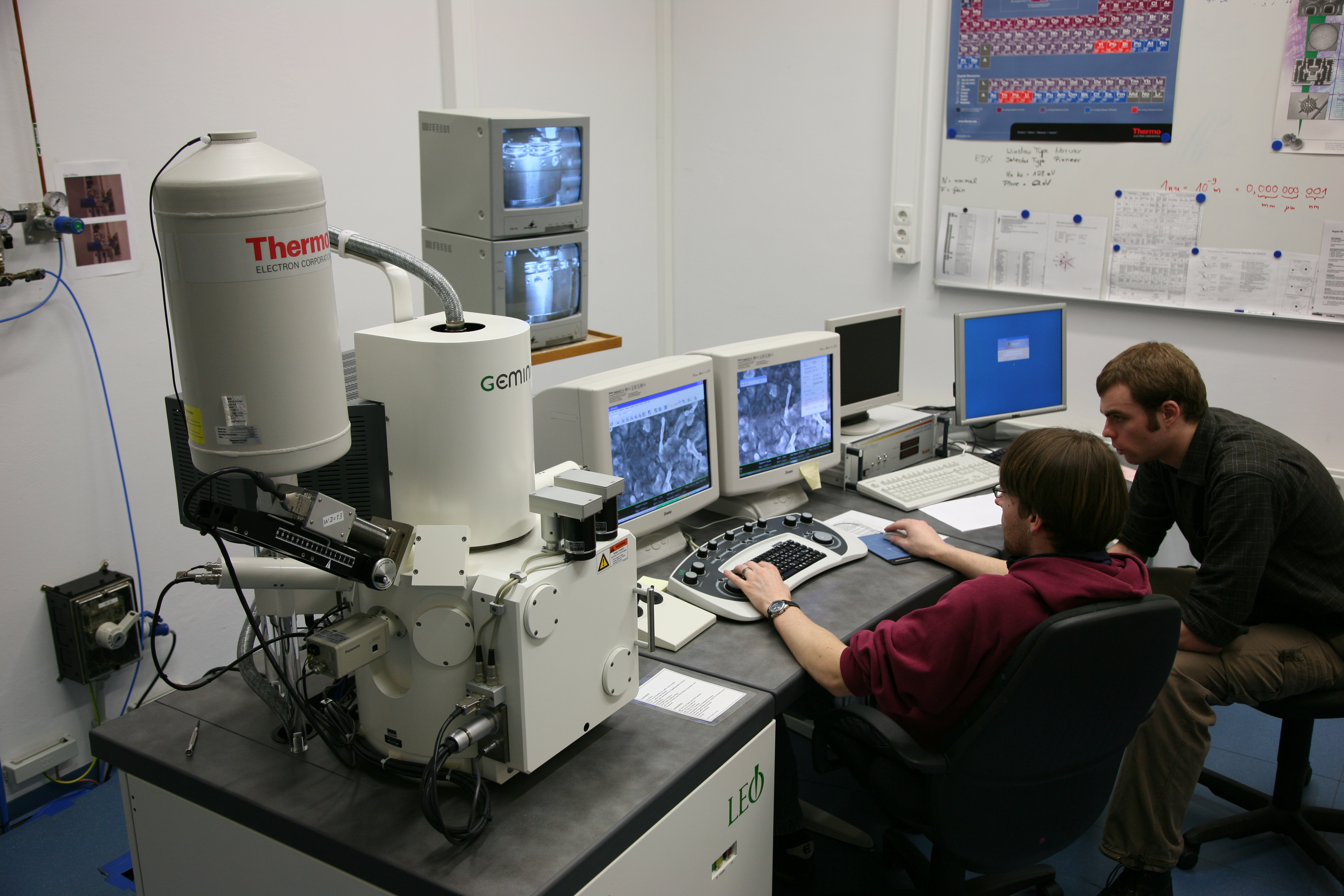 Students working on a Scanning Electron Microscope (SEM) Leo Supra 35